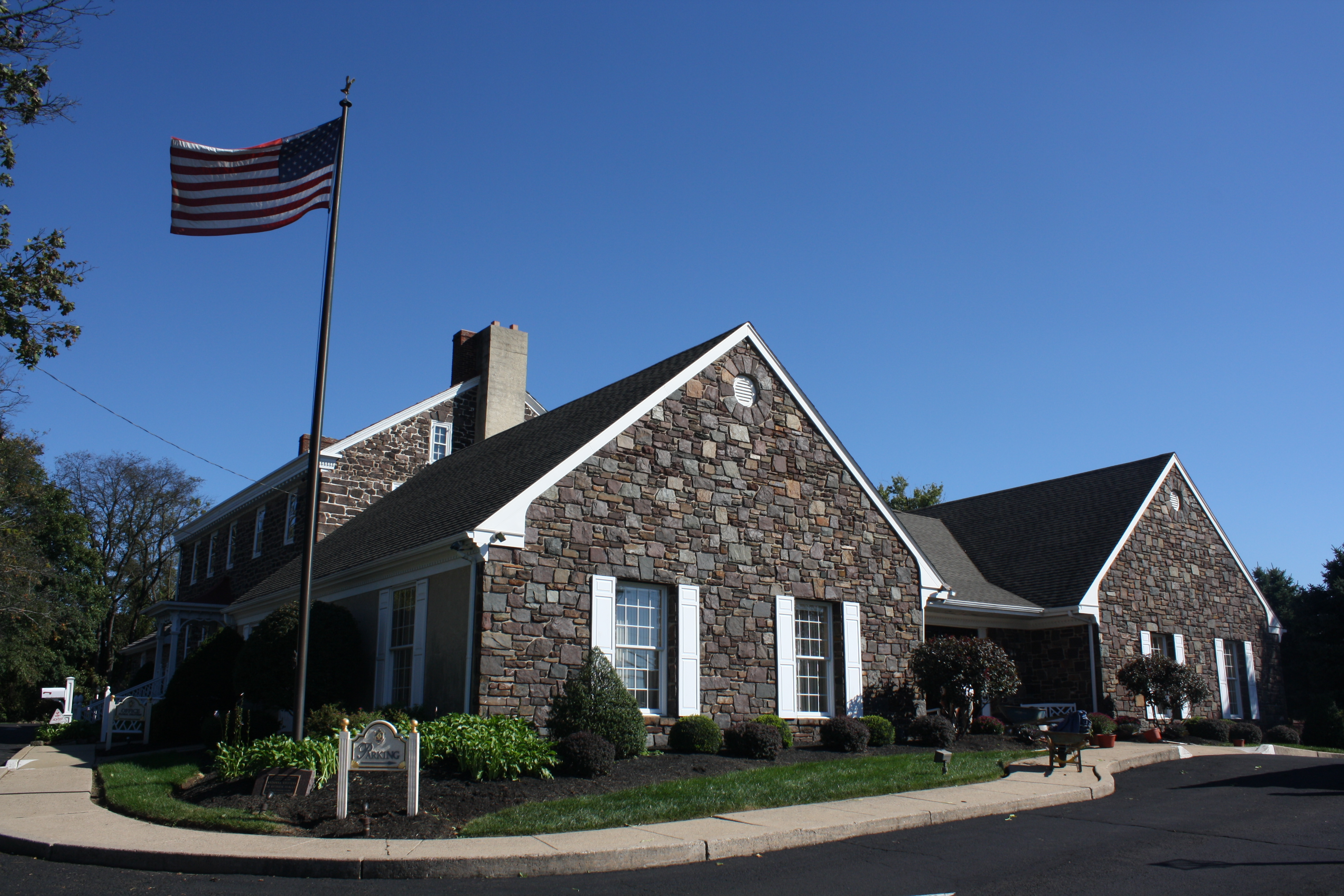 Twin Trees Farm is a historic home located at 905 2nd St. Pike Richboro, Northampton Township, Bucks County, Pennsylvania). Object location40° 12′ 41″ N, 75° 00′ 39″ W